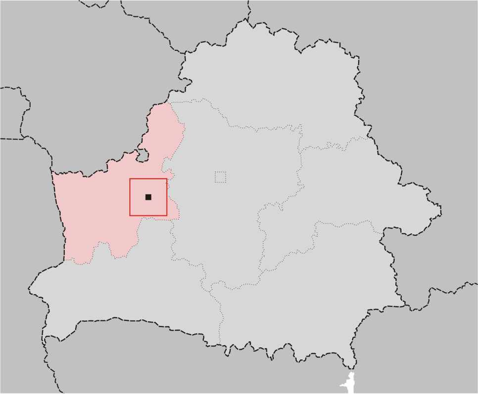 Location of Navahrudak in Belarus